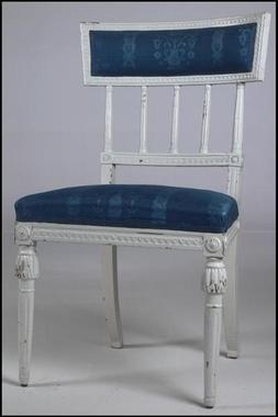 Chair made by the damask weaver Carl Gustaf Widlund (1887-1968). This chair is one of 18 chairs in the accession to Nordiska museet.